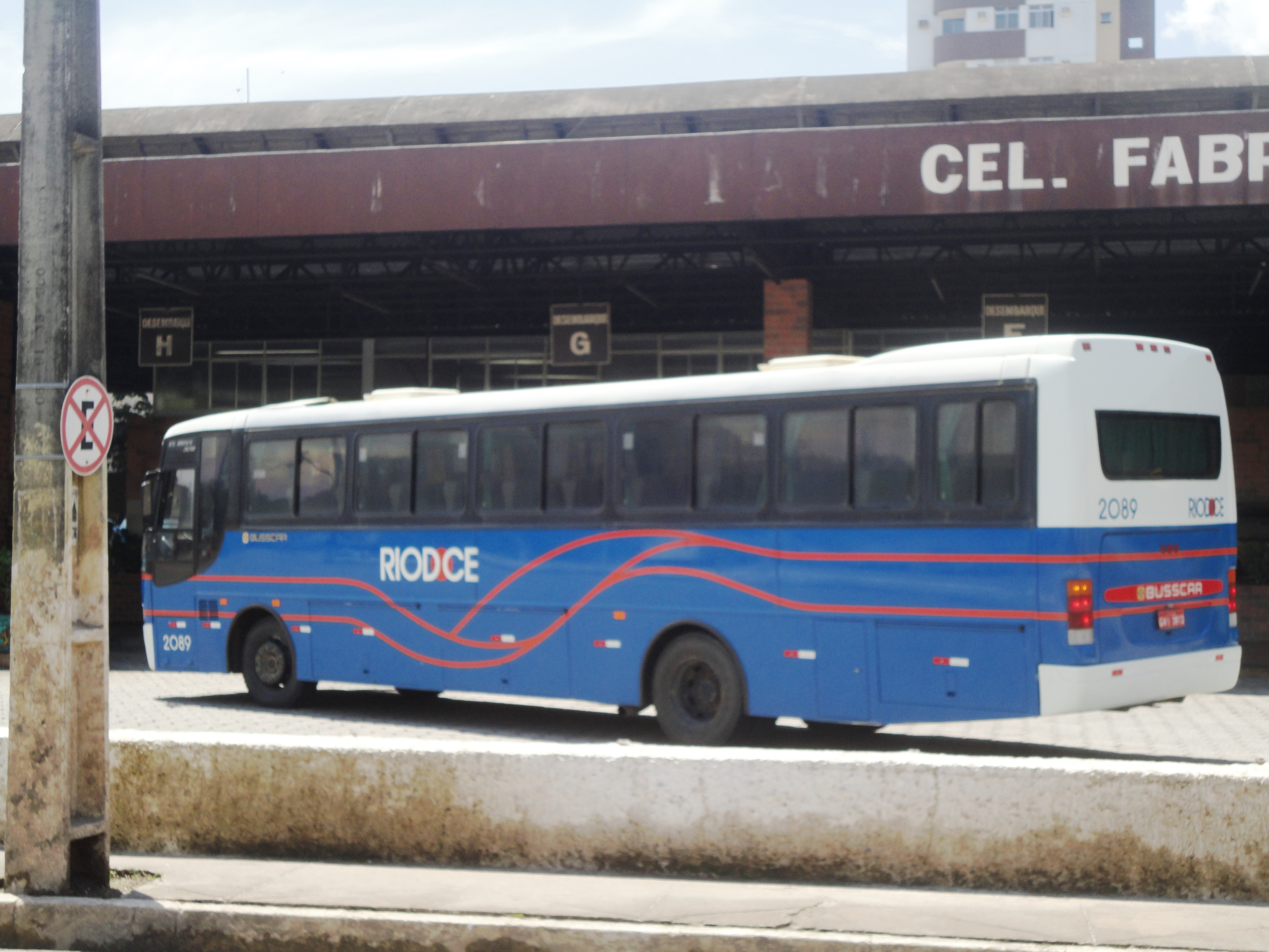 Busscar Elbuss 320 bus (#2089) with Mercedes-Benz OF1721 chassis of the Riodoce Company in the Coronel Fabriciano bus station, in Coronel Fabriciano, Minas Gerais, Brazil.